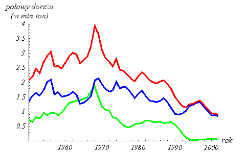 Catch of Atlantic cod 1950-2002 (FAO) (Source: FAO Fishstat 2004.). Polish version.